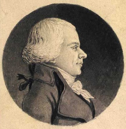 Christian Vilhelm Duntzfelt, aka William Duntzfelt (1762-1809), Danish merchant